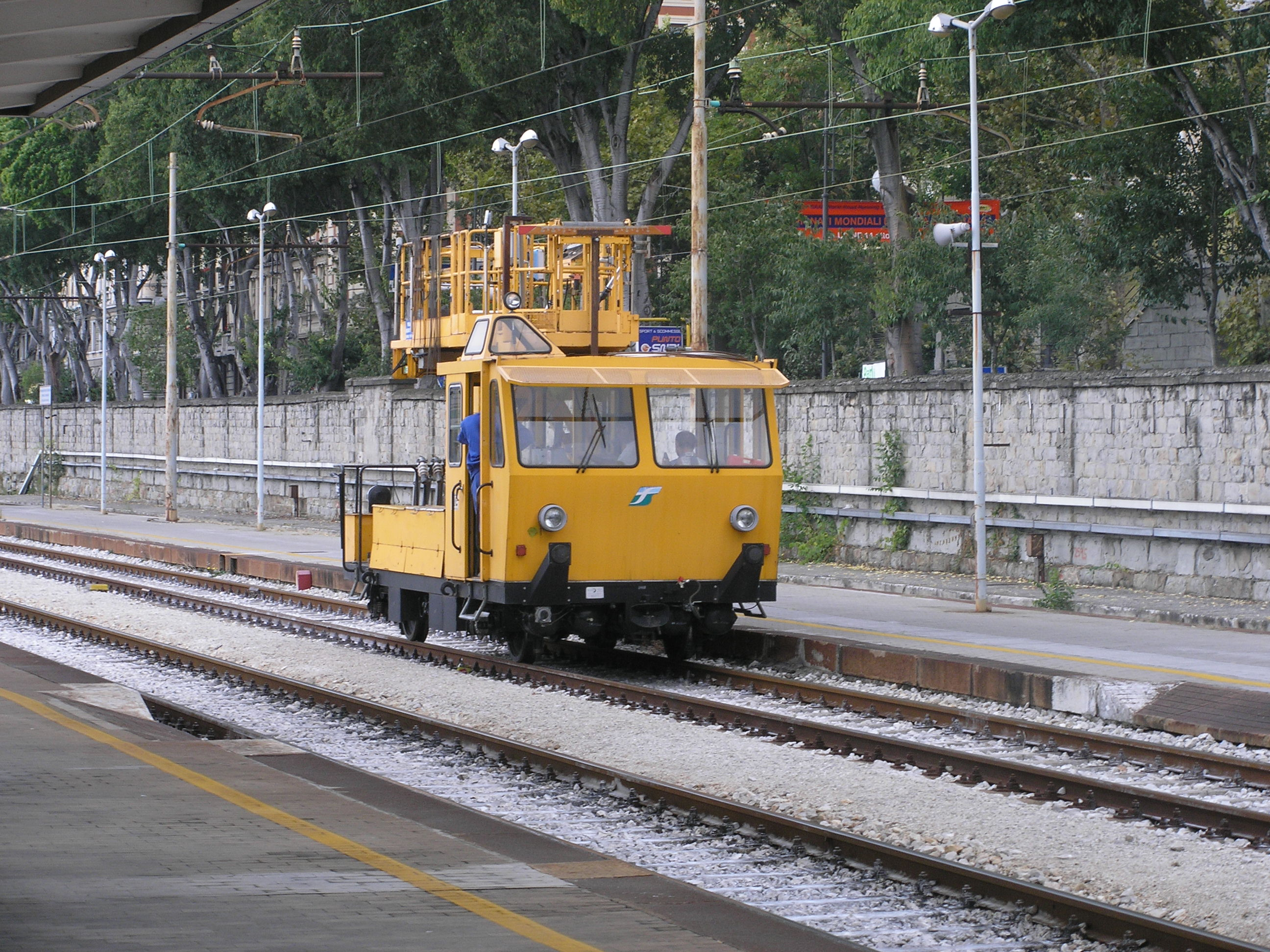 Trieste, Italy